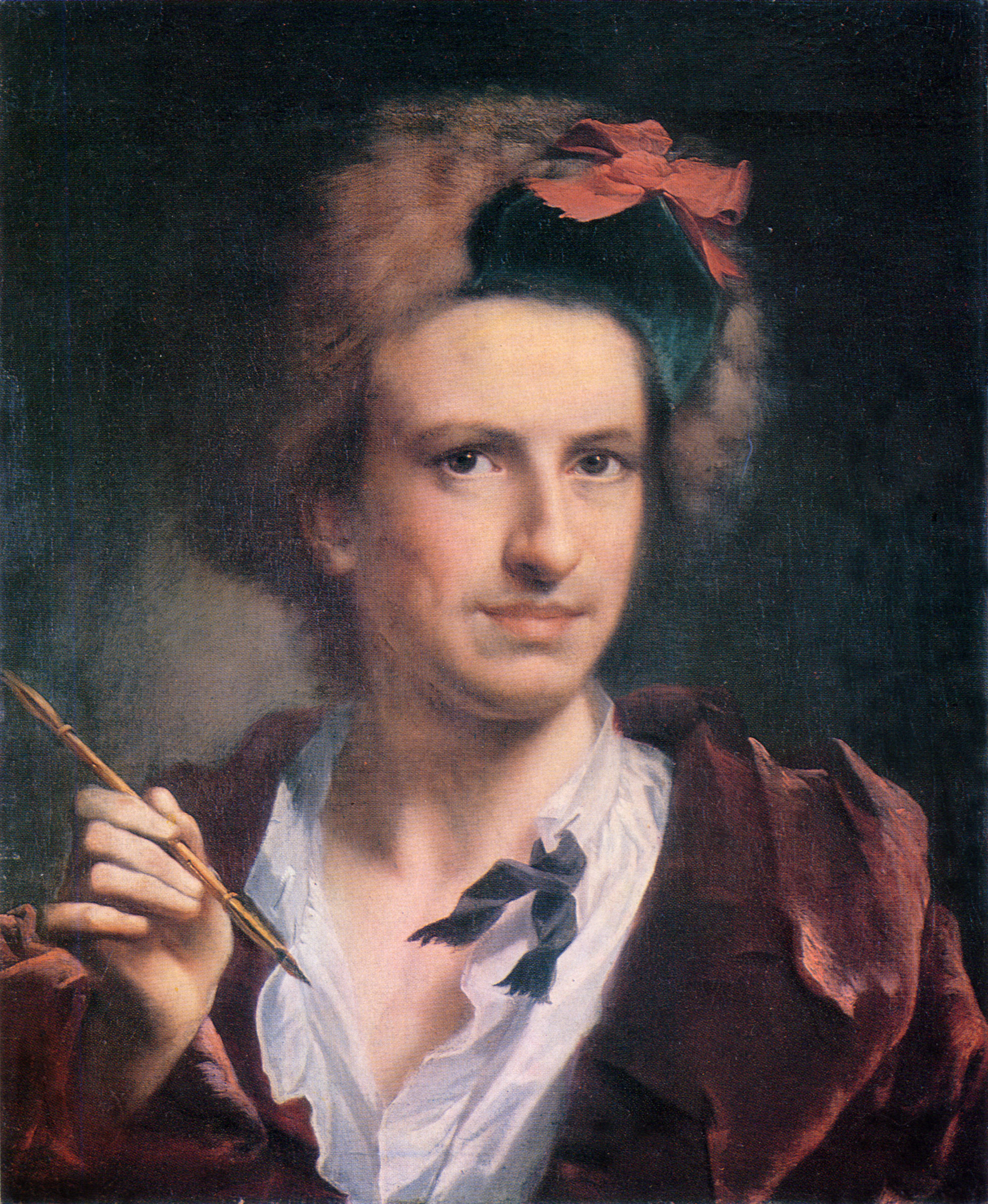 Portrait of engraver Francesco Bartolozzi (1727-1815)